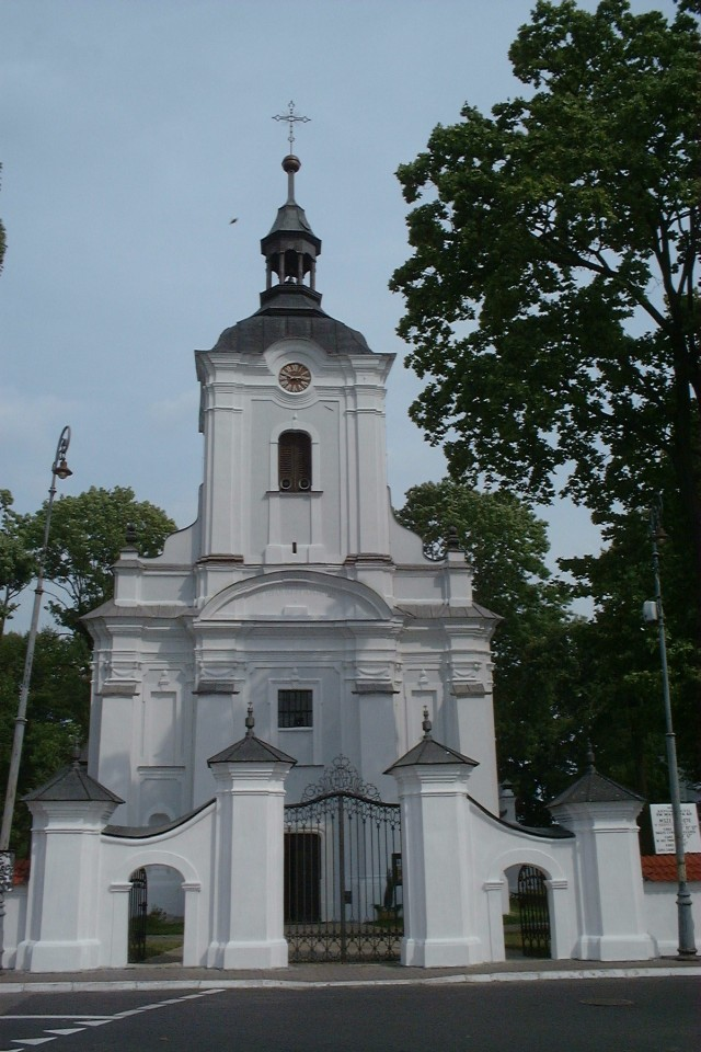 Poland, Siewierz - St. Matthias church.